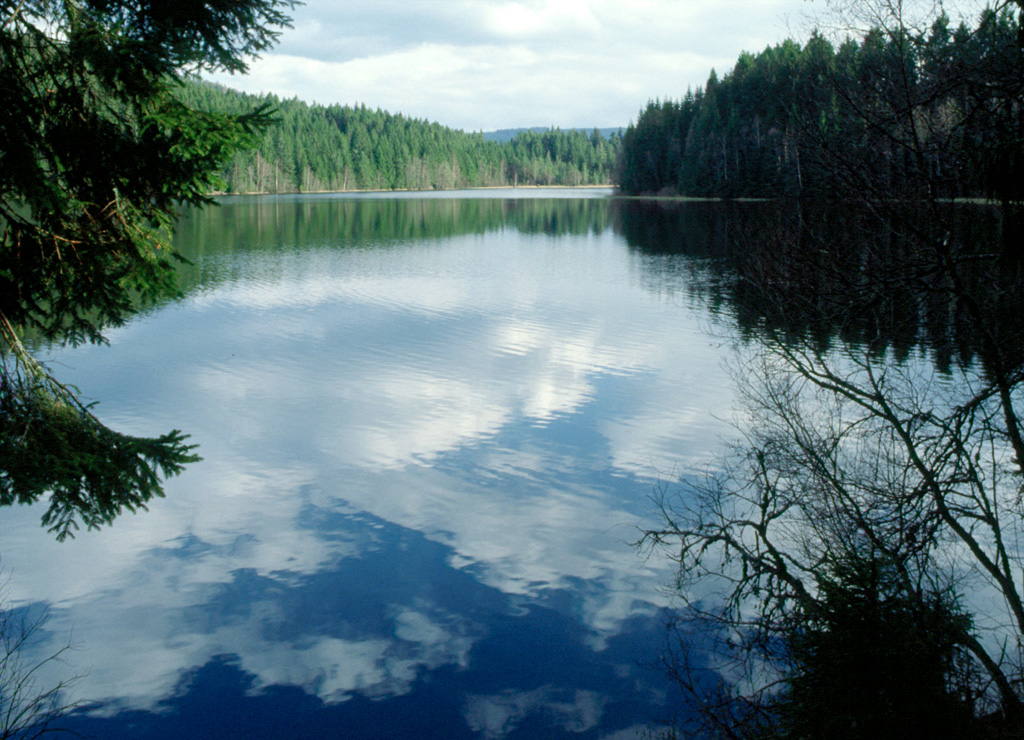 Pond named Windgfaellweiher in the Black Forest area, Germany